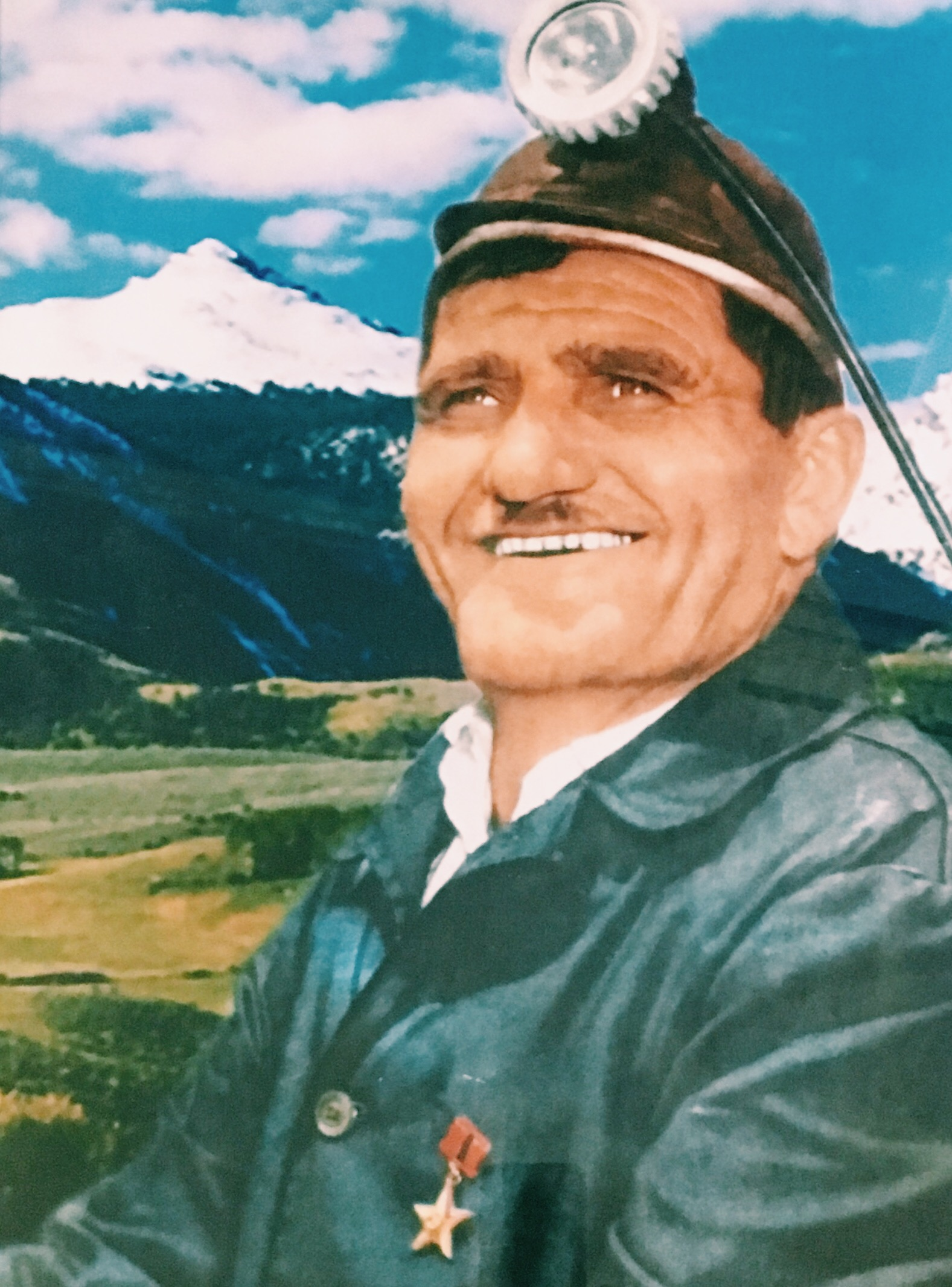 This is a picture of Sali Vata a Hero of socialist work and a deputy in Albania during 1958-1970